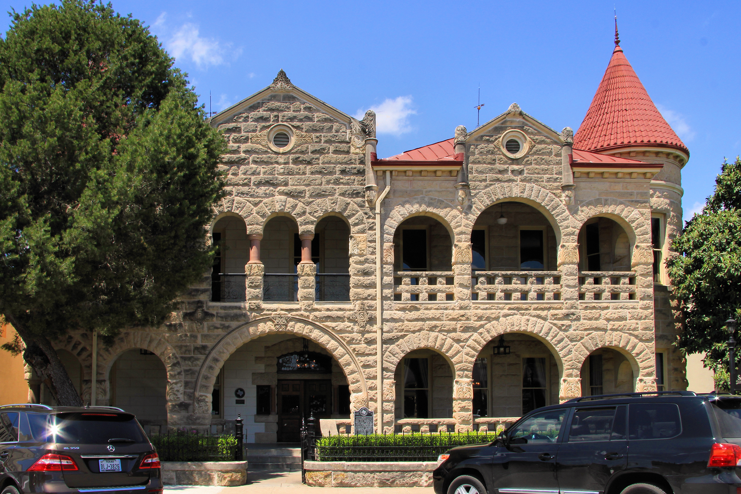 Capt. Charles Schreiner Mansion in Kerrville, Texas, United States. The house was designated a Recorded Texas Historic Landmark in 1962 and listed on the National Register of Historic Places on April 14, 1975.